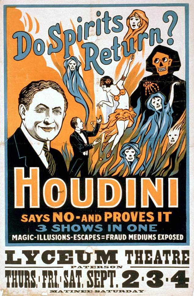 Harry Houdini (1874-1926) performance poster. "Do spirits return? Houdini says no - and proves it. 3 shows in one: magic, illusions, escapes, fraud mediums exposed. Lyceum Theatre, Paterson, Thurs., Fri., Sat., Sept. 2-3-4, matinee Saturday."